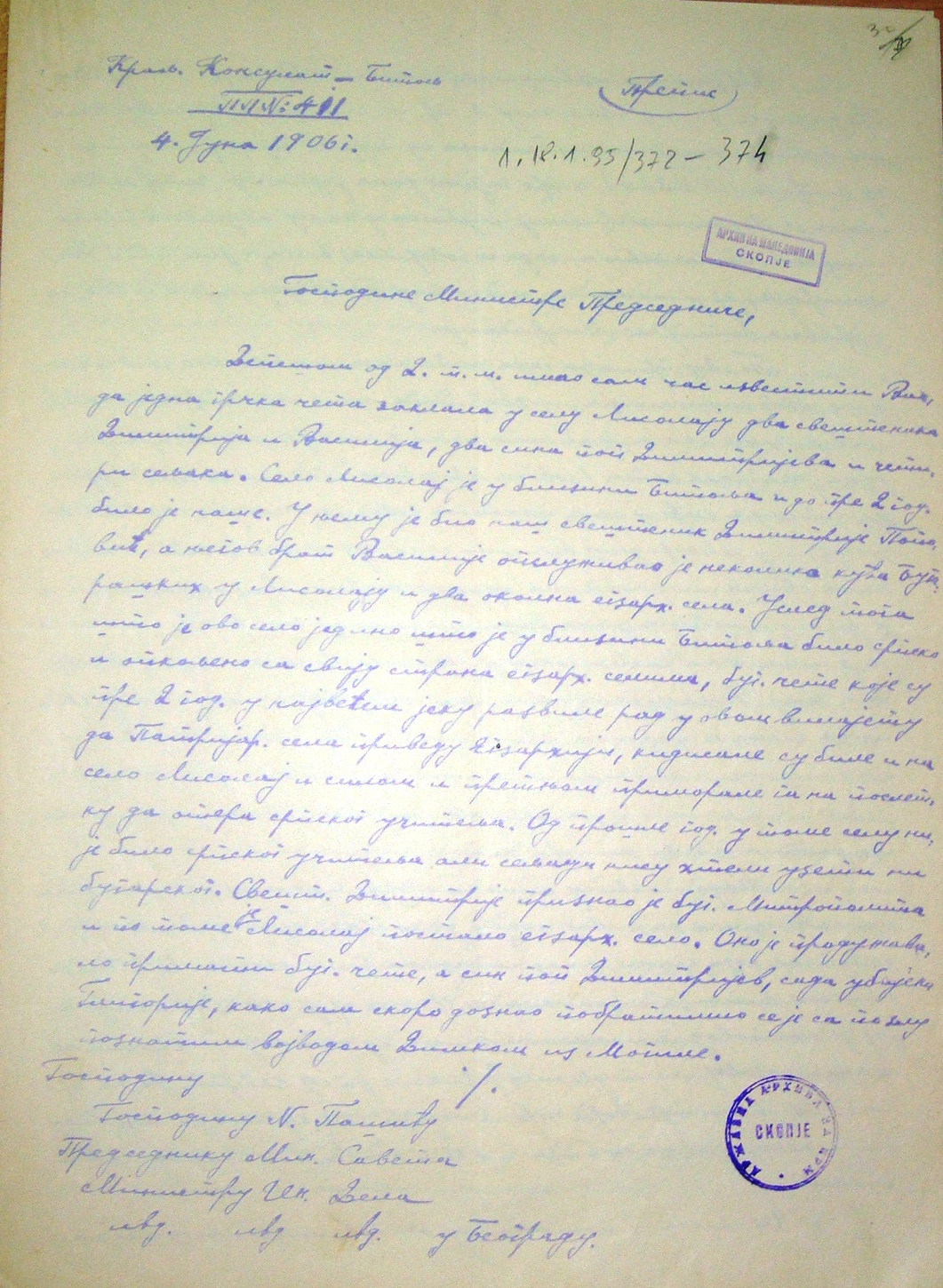 Serbian report for slaughter in the village Lisolaj by a Greek detachment as revenge on the population which passed in the Exarchate. (Bitola, June 4, 1906) This media file is produced by Wikipedian in Residence in Category:Wikipedian in Residence at DARM in 2016.